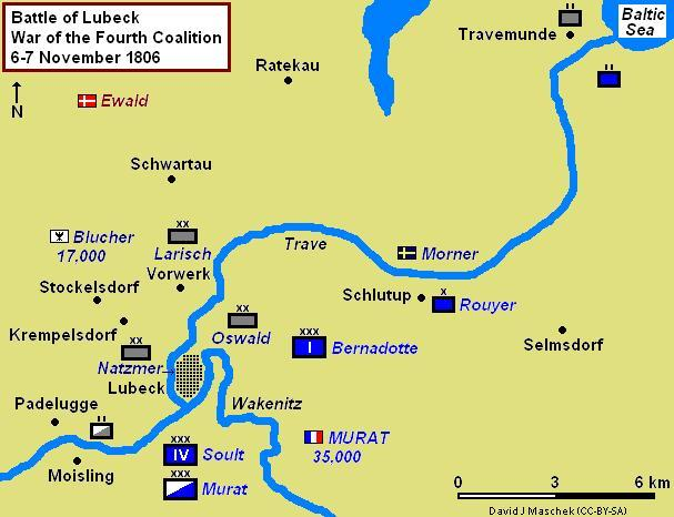 Map of the Battle of Lubeck, 6-7 November 1806, showing the area near the city.